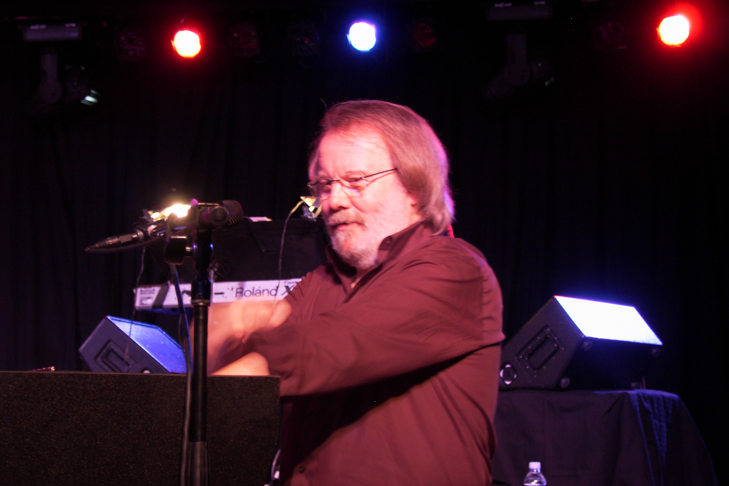 Benny Andersson of ABBA at a concert in Minnesota in 2006.